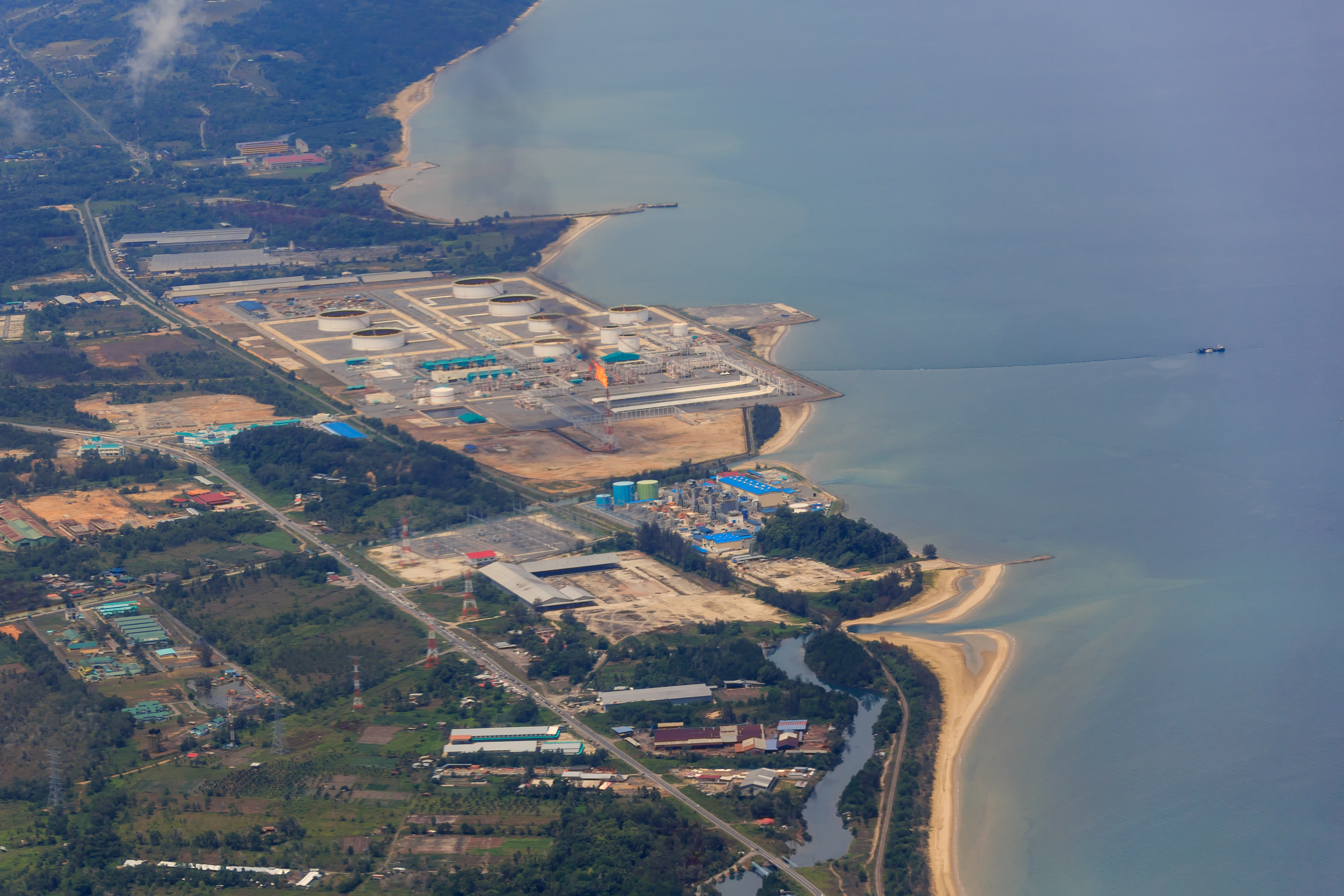 Kimanis, Sabah: Aerial View of the Sabah Oil- and Gasterminal (SOGT) in Kimanis as part of the Sabah-Sarawak-Pipeline. Almost finished construction work in mai 2014